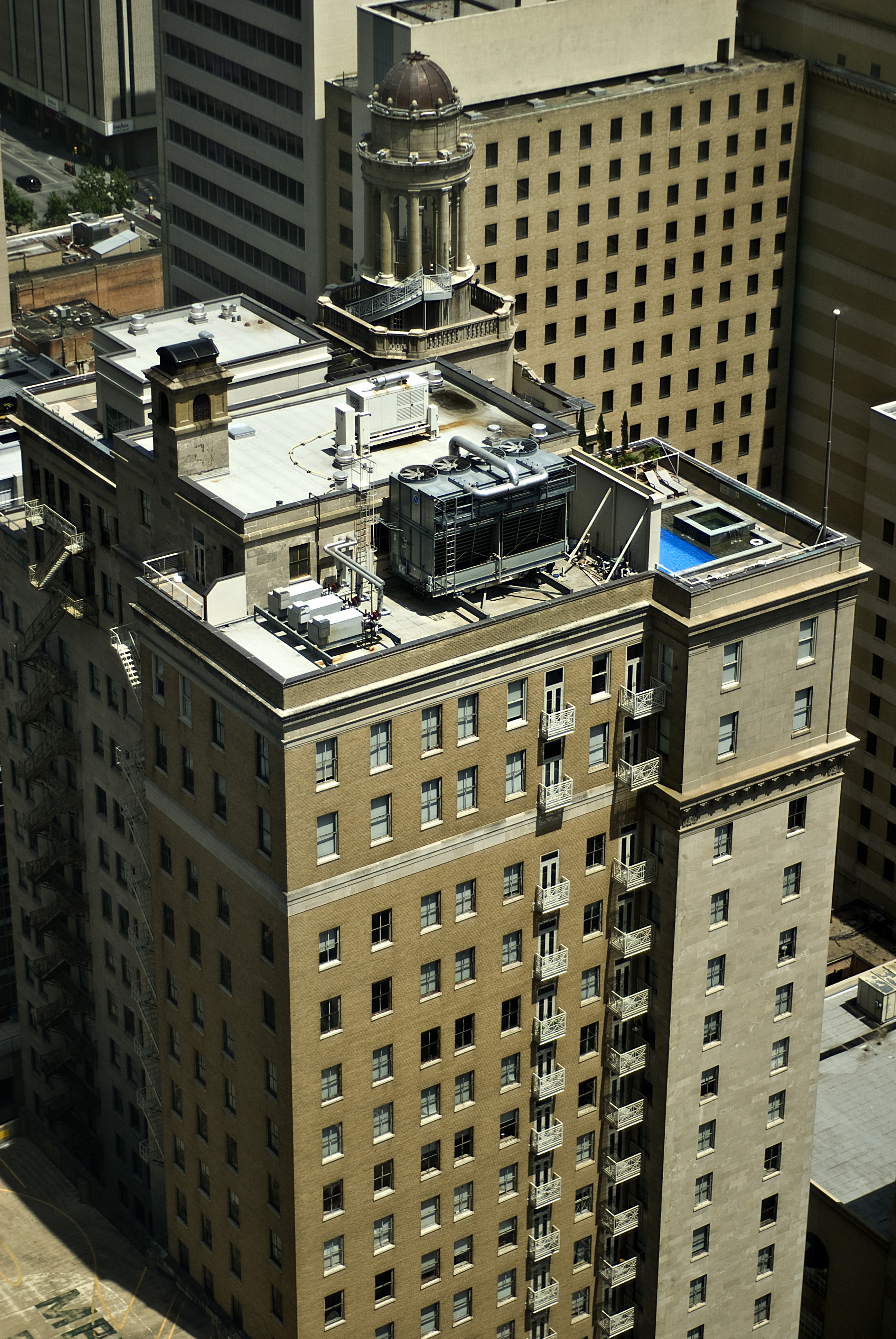 Another shot from our trade floor I don't know much about the building, but it has a cool structure (cupola) on top that I'd like to photograph from a lot closer... Recently made into downtown lofts.